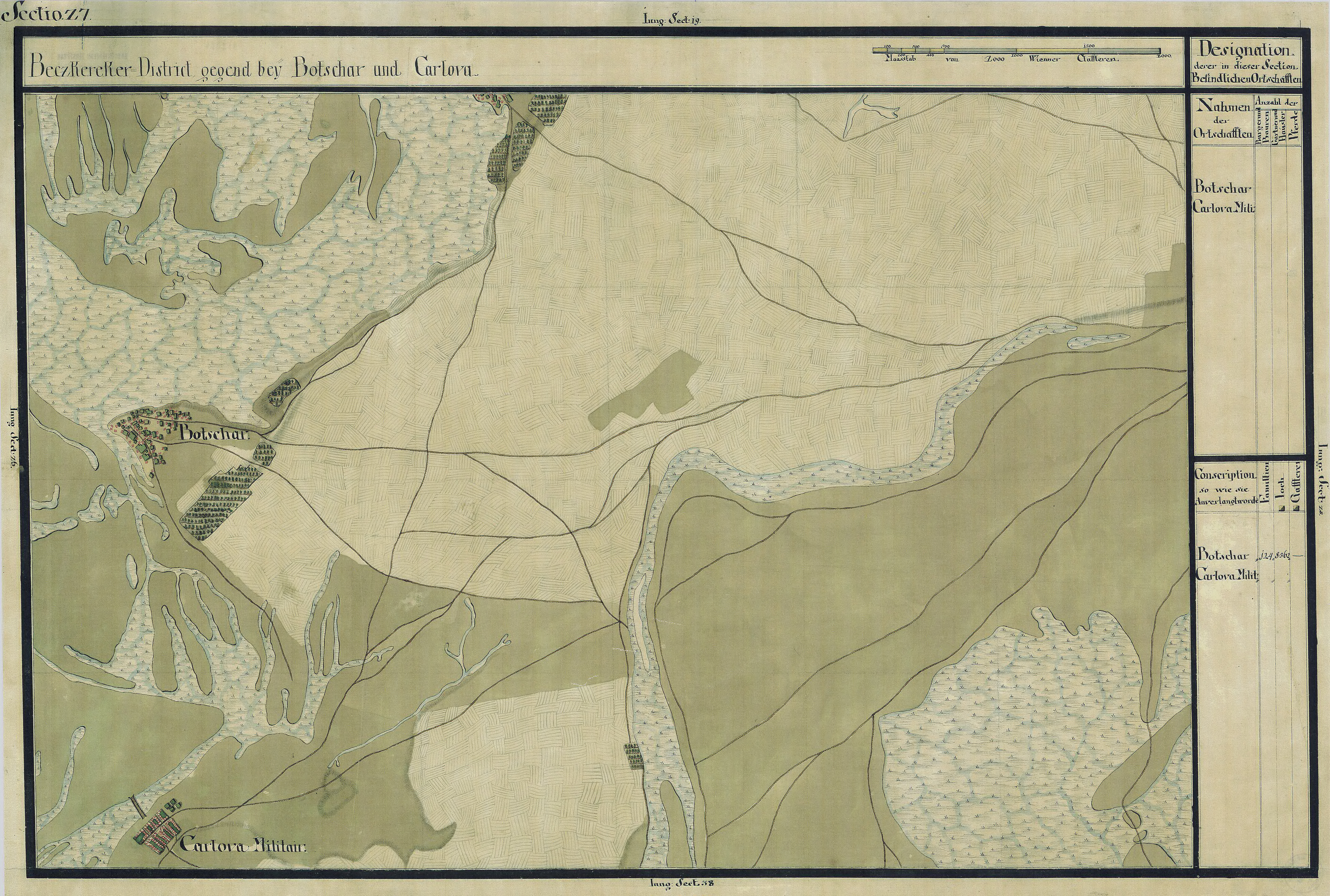 The Banat region in the cadastral maps: Josephinische Landesaufnahme, 1769-72. Josephinische Landaufnahme pg027